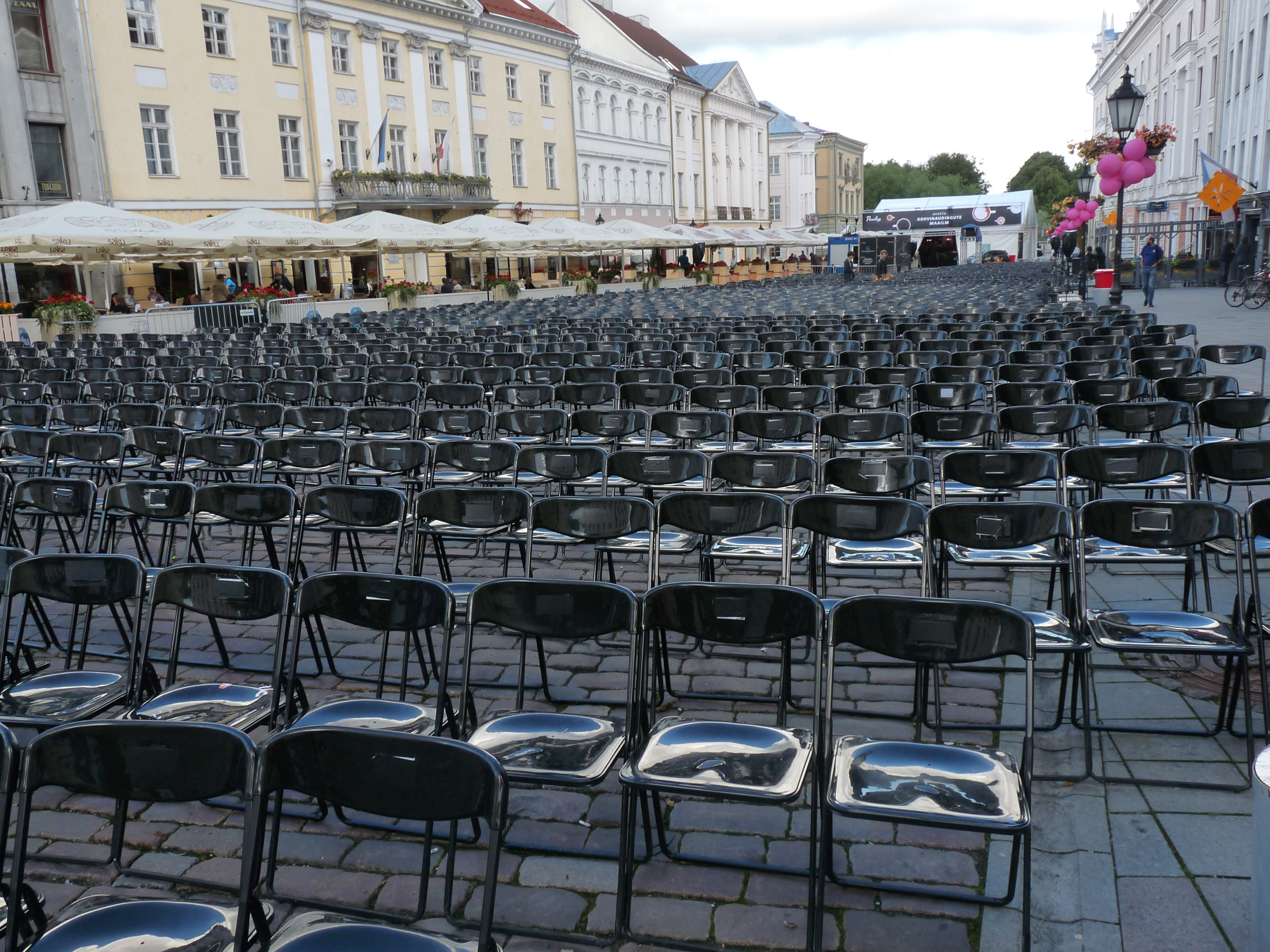 Preparations for the annual film festival tARTuFF in Tartu, on Raekoja plats, on August 9, 2012. Photo: User:Oop.